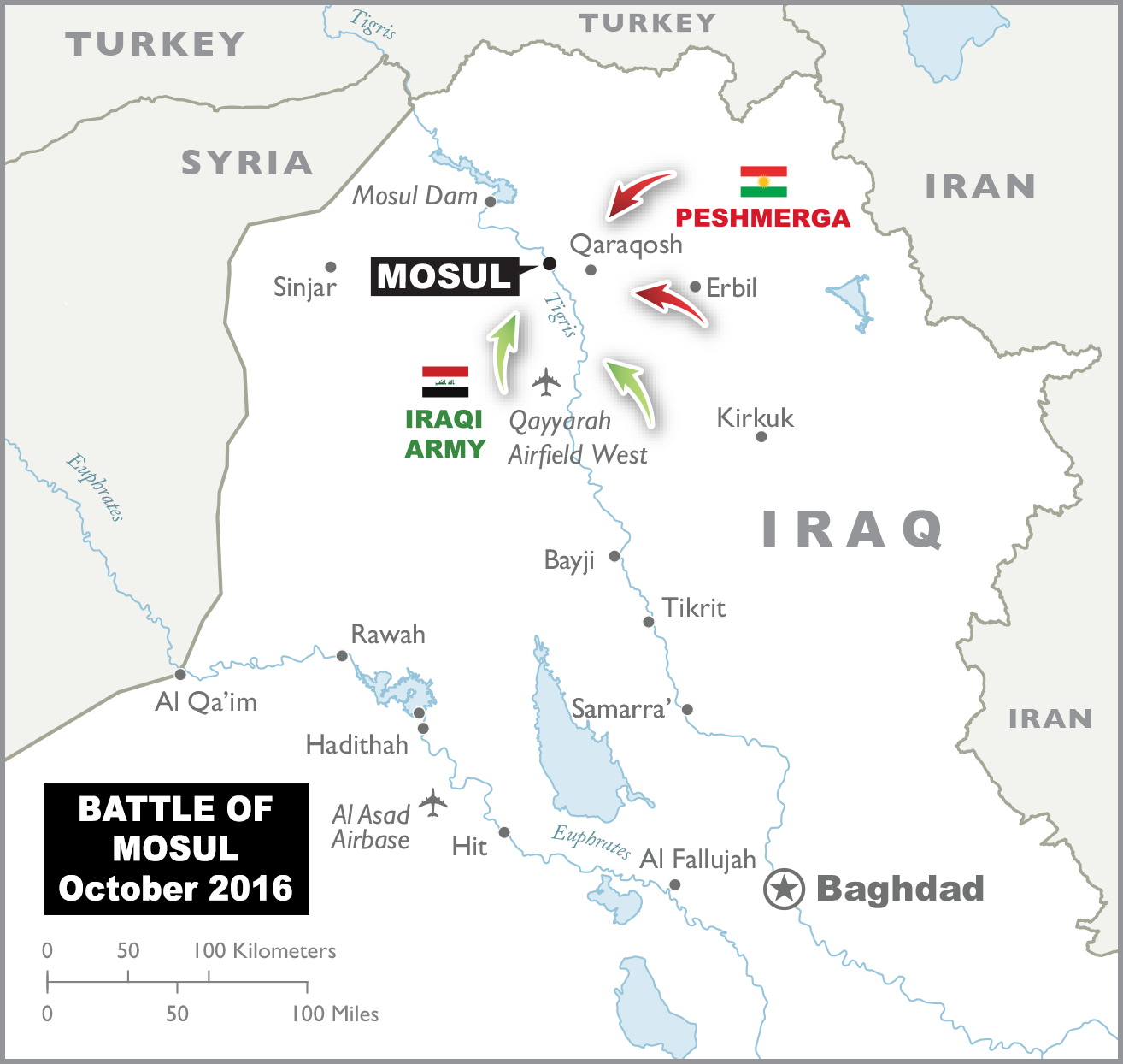 Infomap of Iraq - Battle of Mosul, October 2016.